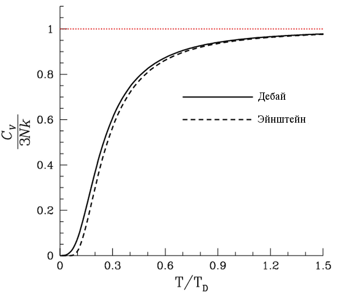 Comparison of Debye model and Einstein model for the specific heat of solids.